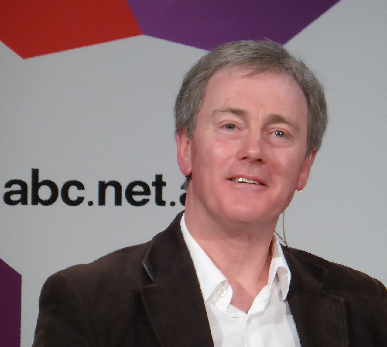 Christopher Lawrence, 2014 in Brisbane